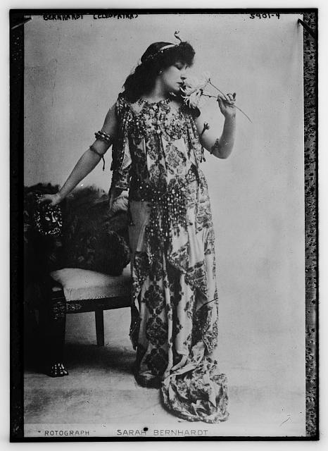 Sarah Bernhardt as Cleopatra